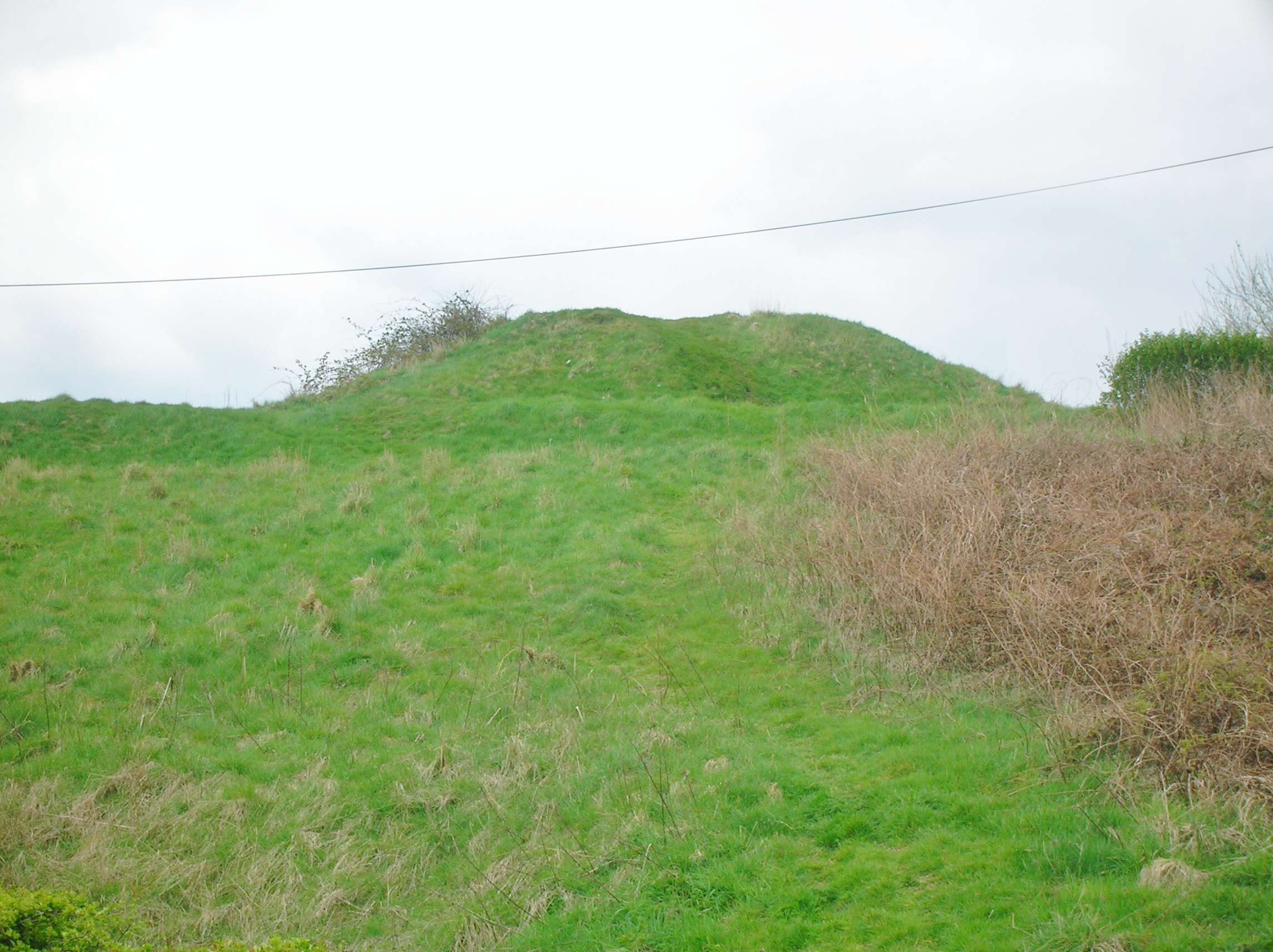 The Baal hill, is the Tarbolton Motte, now known locally as Hood's Hill, after the parish schoolmaster Mr John Hood, who rented the land in the mid-1700's. Ayrshire, Scotland.